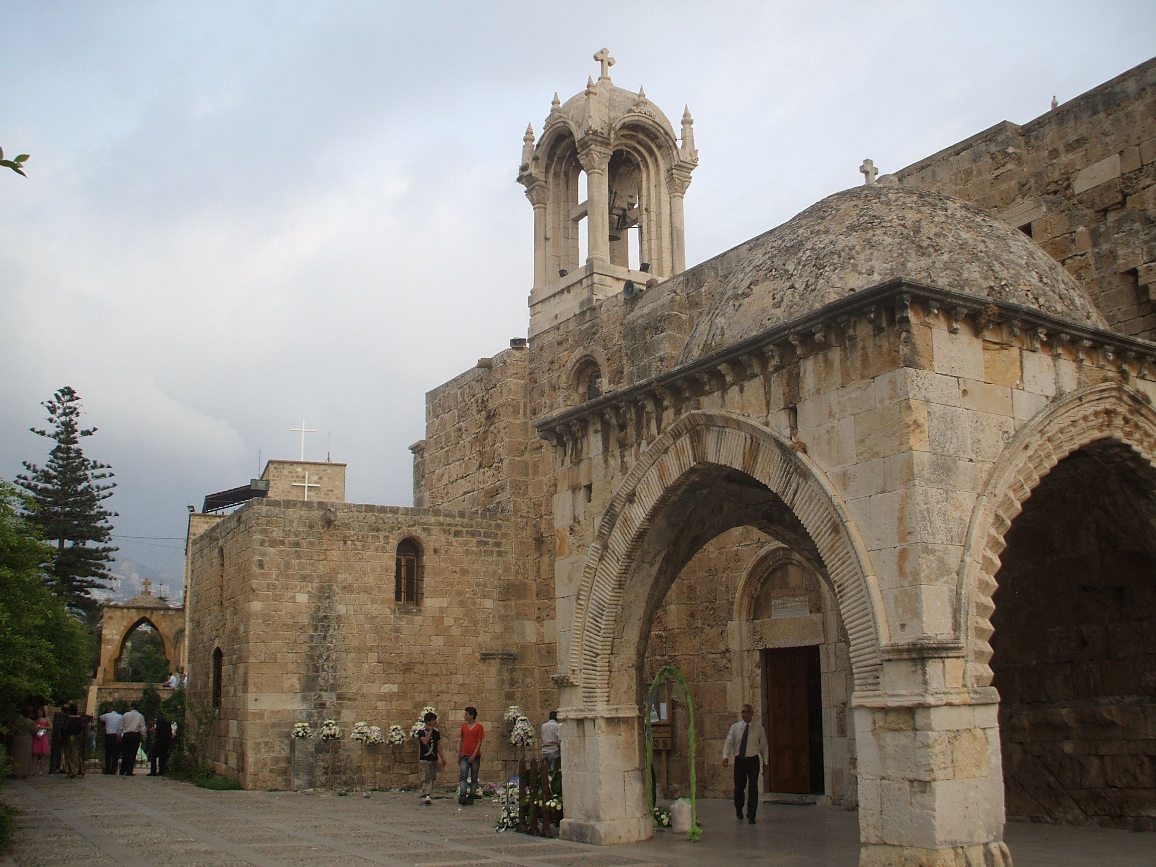 Medieval Church of St. John in Byblos, Lebanon.